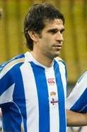 Juan Carlos Valerón